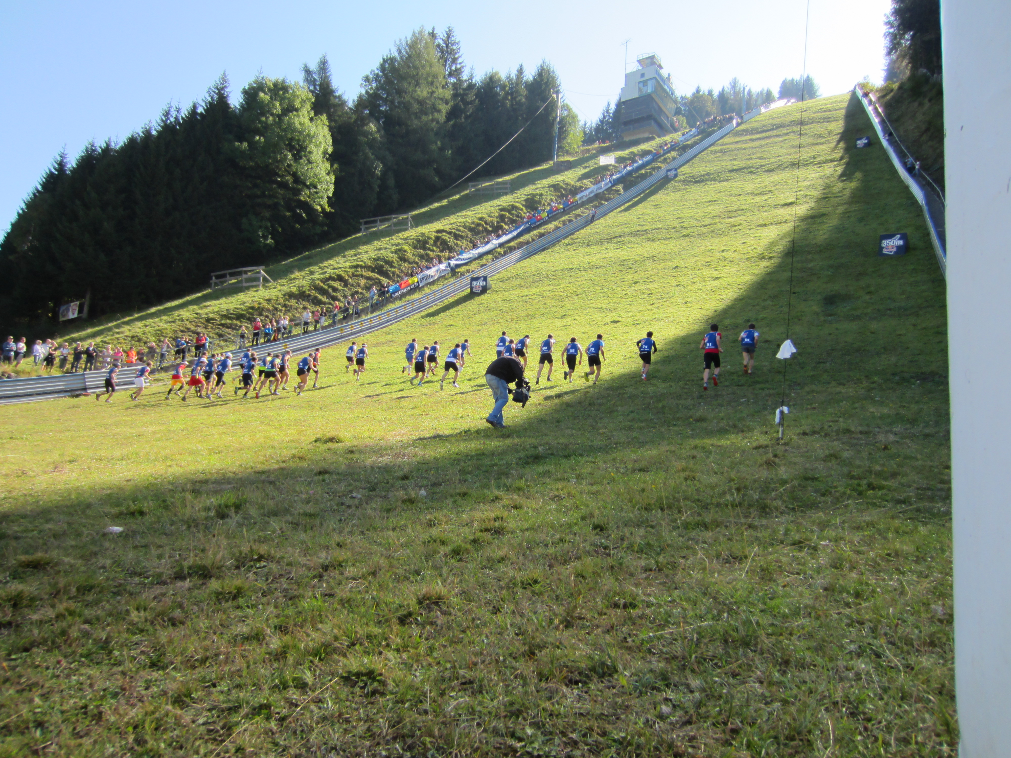 second qualifying run at first held "RedBull400" run up the Skijumping hill at Kulm/Bad Mitterndorf/Austria